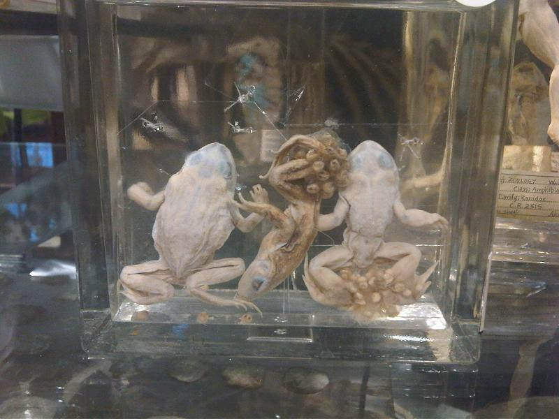 Common Midwife Toads (Alytes obstetricans) in Grant Museum of Zoology, London, England.